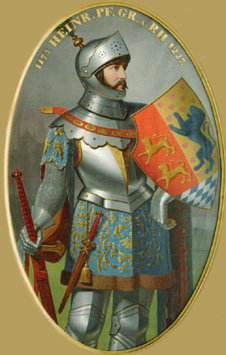 Henry (V) the Elder of Brunswick, Count Palatine of the Rhine. Oil painting by Johann Christian Ludwig Tunica (1836), formerly hung in Marienburg Castle and in the Leine Castle in Hanover, since 2005 VGH-Foundation Hanover.